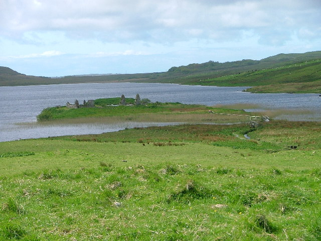 Islands of Loch Finlaggan on Islay, site of Finlaggan Castle (Eilean Mor nearest, Eilean na Comhairle further away)